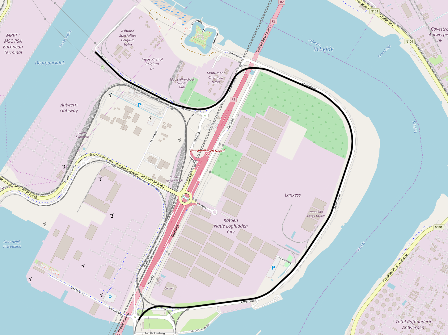 Belgian Railway Line 208, Y Farnese - Geslecht industrial zone